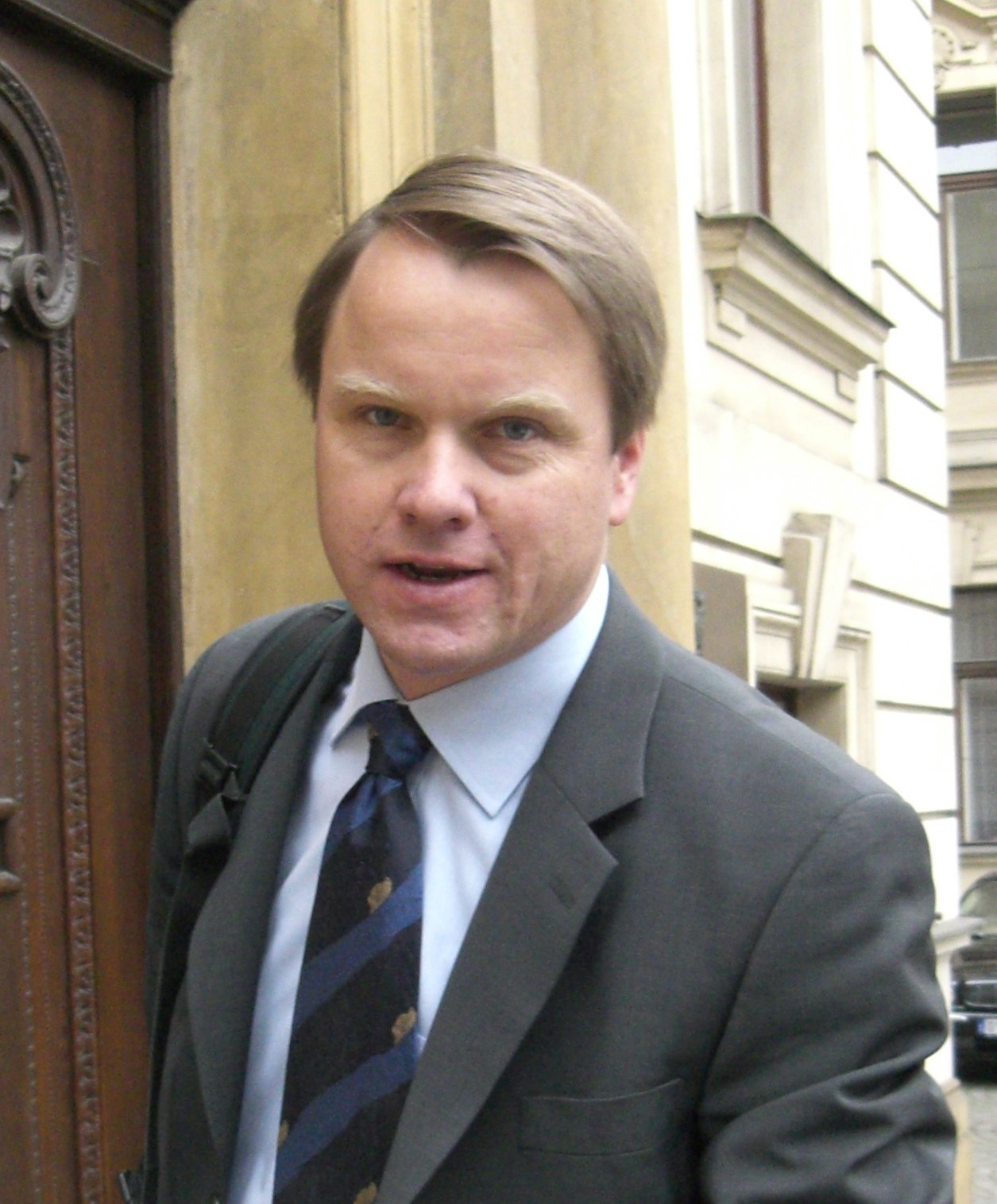 Czech politician Martin Bursík